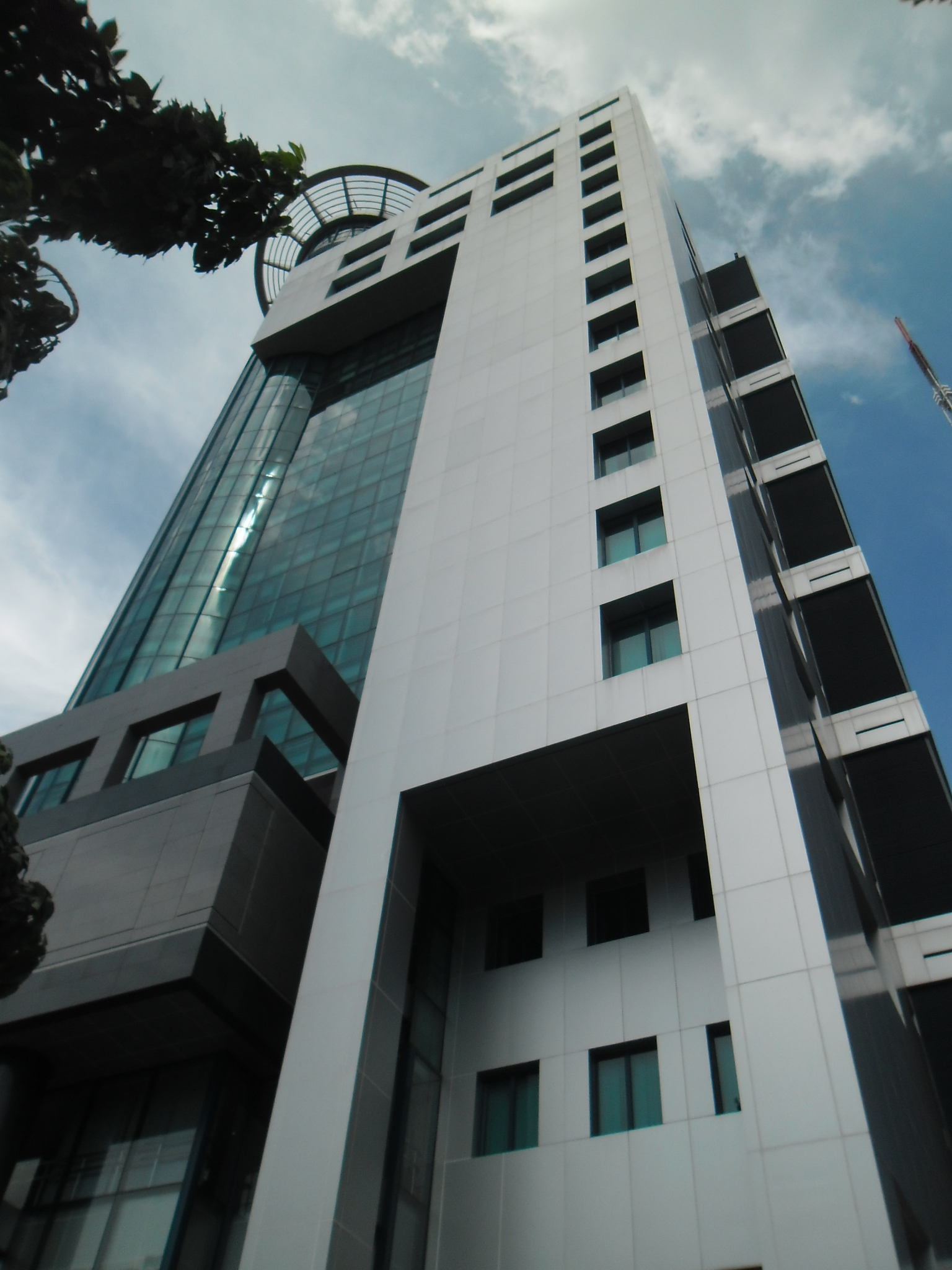 HTV headquarter on Dinh Tien Hoang street in District 1, HCMC